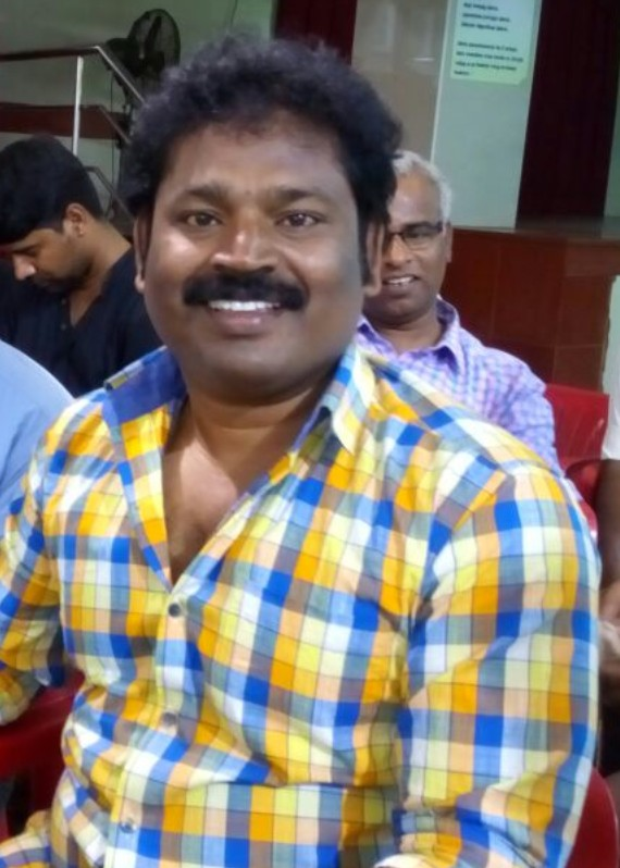 V. Gowthaman